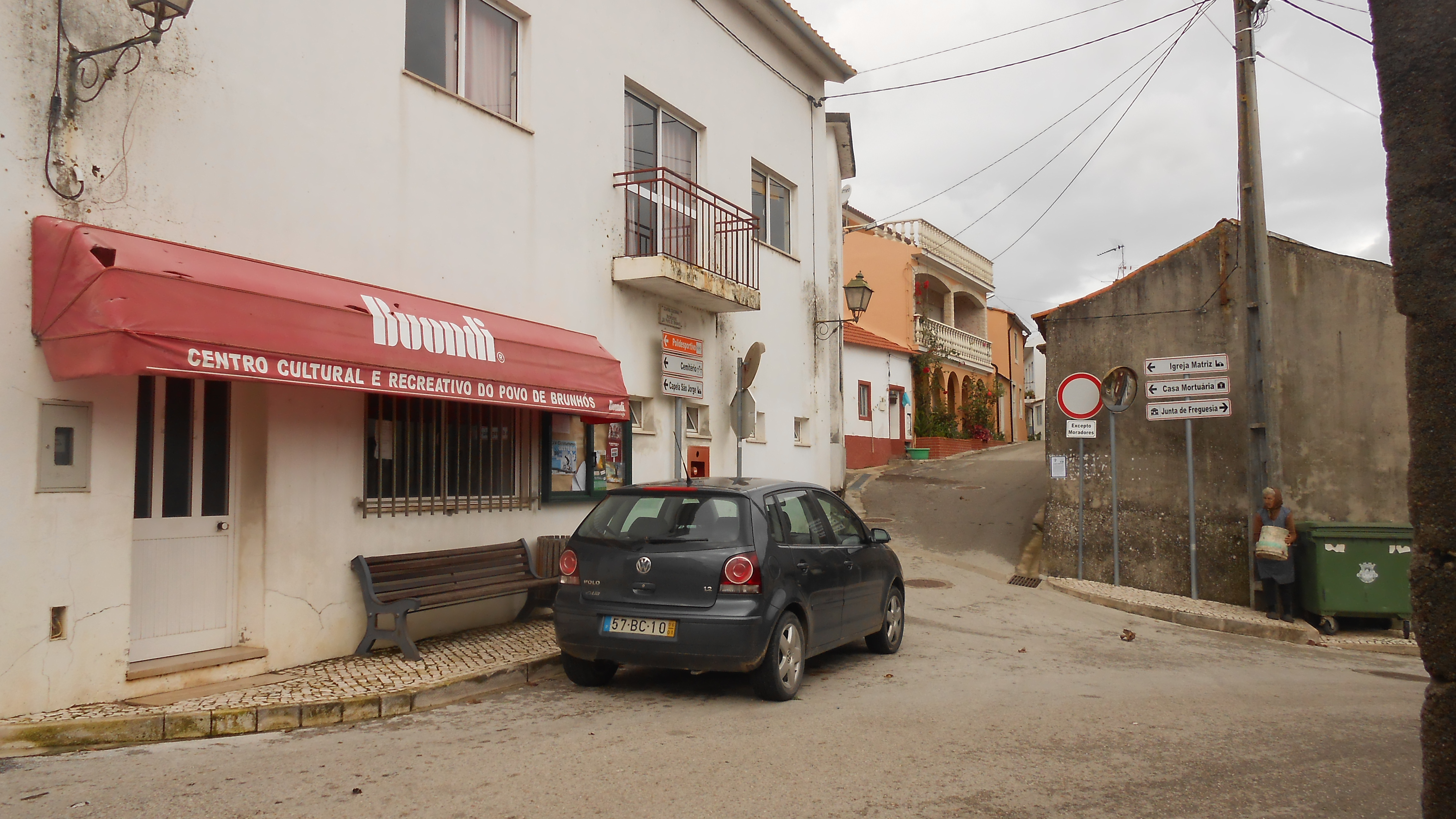 The "cultural and recreative centre of the people of Brunhós", parish of Brunhós, municipality of Soure, district of Coimbra, Portugal.